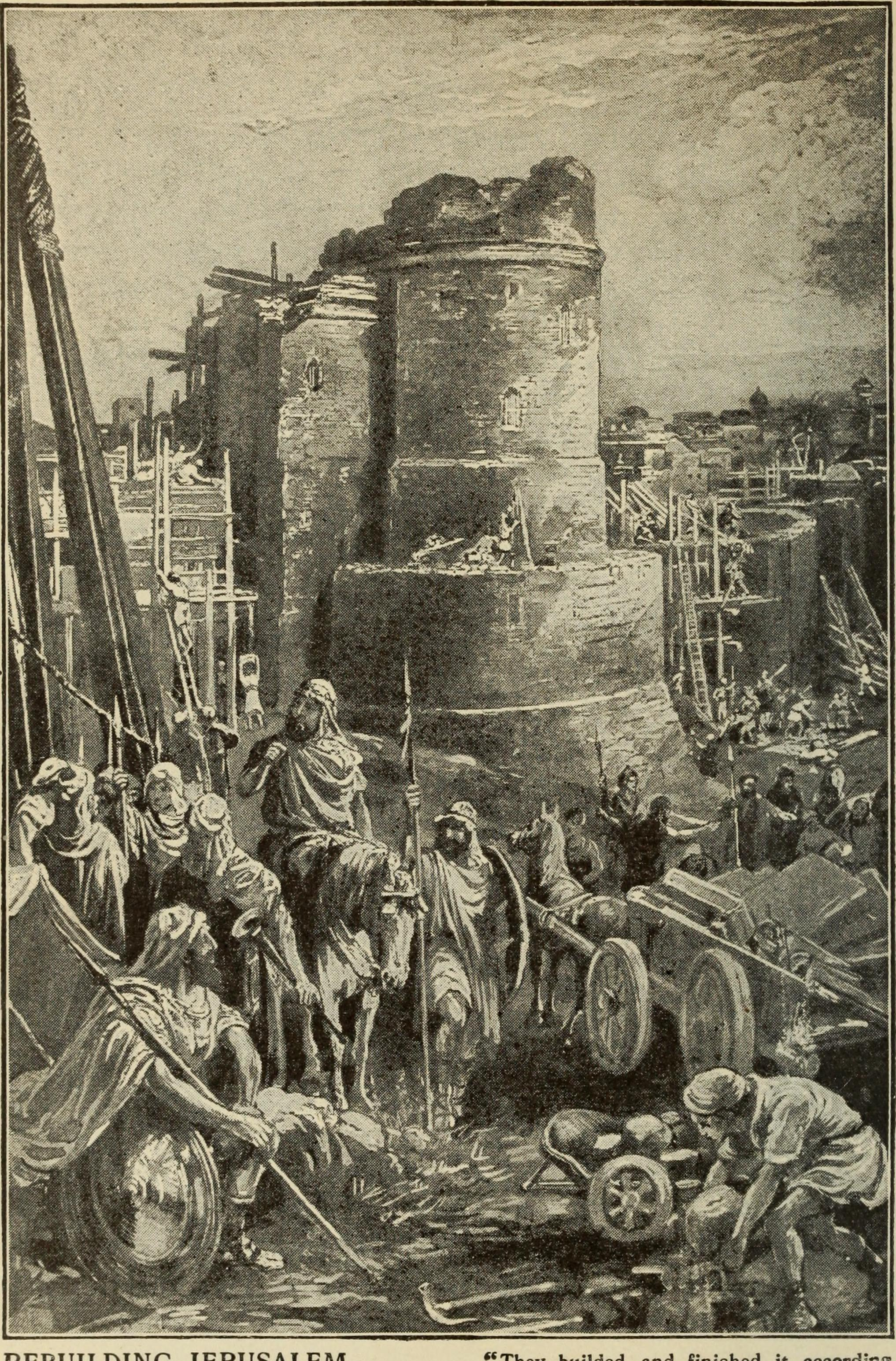 Title: Our day in the light of prophecy and providence Year: 1921 (1920s) Authors: Spicer, William Ambrose, 1866- Subjects: Publisher: Oshawa, Ont., Canadian Watchman Press Text Appearing Before Image: THE JEWS MOURNING OVERTHE RUINS OF JERUSALEM I went out by night, . . . and viewedthe walls of Jerusalem, which werebroken down. Neh. 2:13. The decree of Artaxerxes was most comprehensive (Ezra7), authorizing the full restoration of the civil and rehgiousadministration of Jerusalem and Judea. And Inspirationspecifically sums up all the decrees as completed only in thatof Artaxerxes, which thus constituted *the commandment: They builded, and finished it, according to the com-mandment of the God of Israel, and according to the com-mandment of Cyrus, and Darius, and Artaxerxes king ofPersia. Ezra 6: 14. Text Appearing After Image: REBUILDING JERUSALEM They builded, and finished it, accordingto the commandment of the God of Is-rae/, and according to the commandment ofCyrus, and Darius, and Artaxerxes kiii^of Persia. Ezra 6:14. A Great Prophetic Period 225 According to this scripture, the full going forth of thecommandment to restore and to build, dates from this de-cree of Artaxerxes. And this decree went forth 4n the sev-enth year of Artaxerxes the king. Ezra 7:7. What year was this seventh year of Artaxerxes — a dateso important to fix to a certainty? The great chronological standard for the kings of theancient empires is the canon, or historical rule, of Ptolemy.Ptolemy was a Greek historian, geographer, and astronomer,who lived in the temple of Serapis, near Alexandiia, Egypt.From ancient records he prepared a chronological table ofthe kings of Babylon, Persia, Greece, and Rome (carryingthe Roman list to his own time, which was the second centuryafter Christ). Along with his list of kings and the years oft